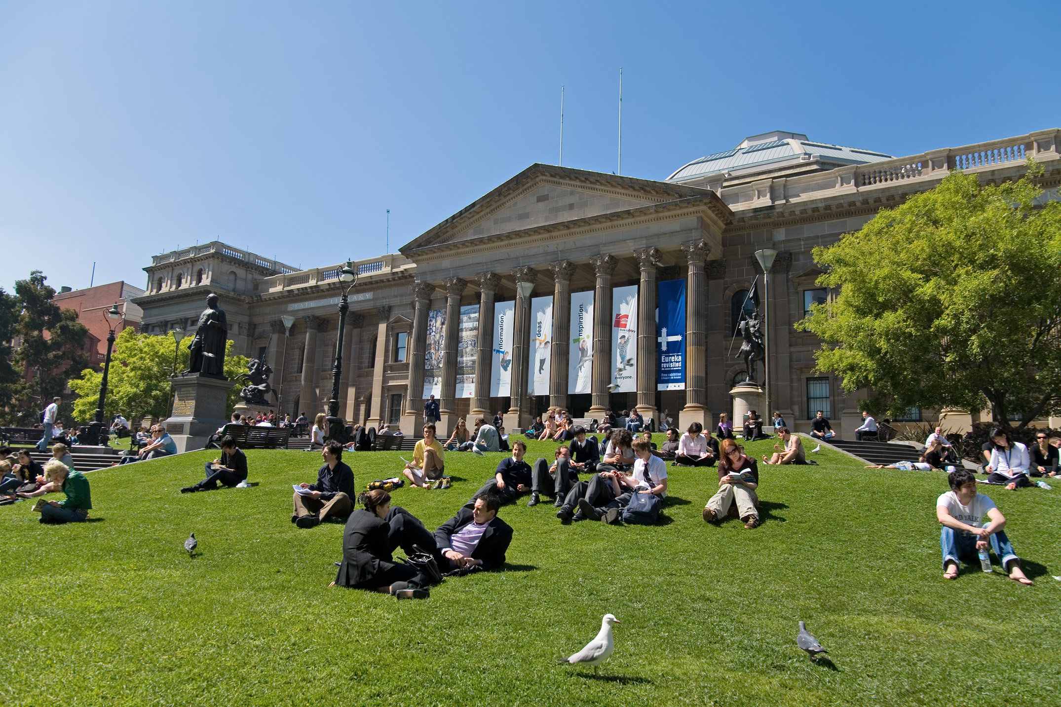 A photo taken on a warm spring day at lunch time. Workers and students of nearby universities are relaxing on the grass outside the State Library. Taken by myself on 17th of October 2005 with a Canon 5D, with a 24-105mm f/4 IS lens.